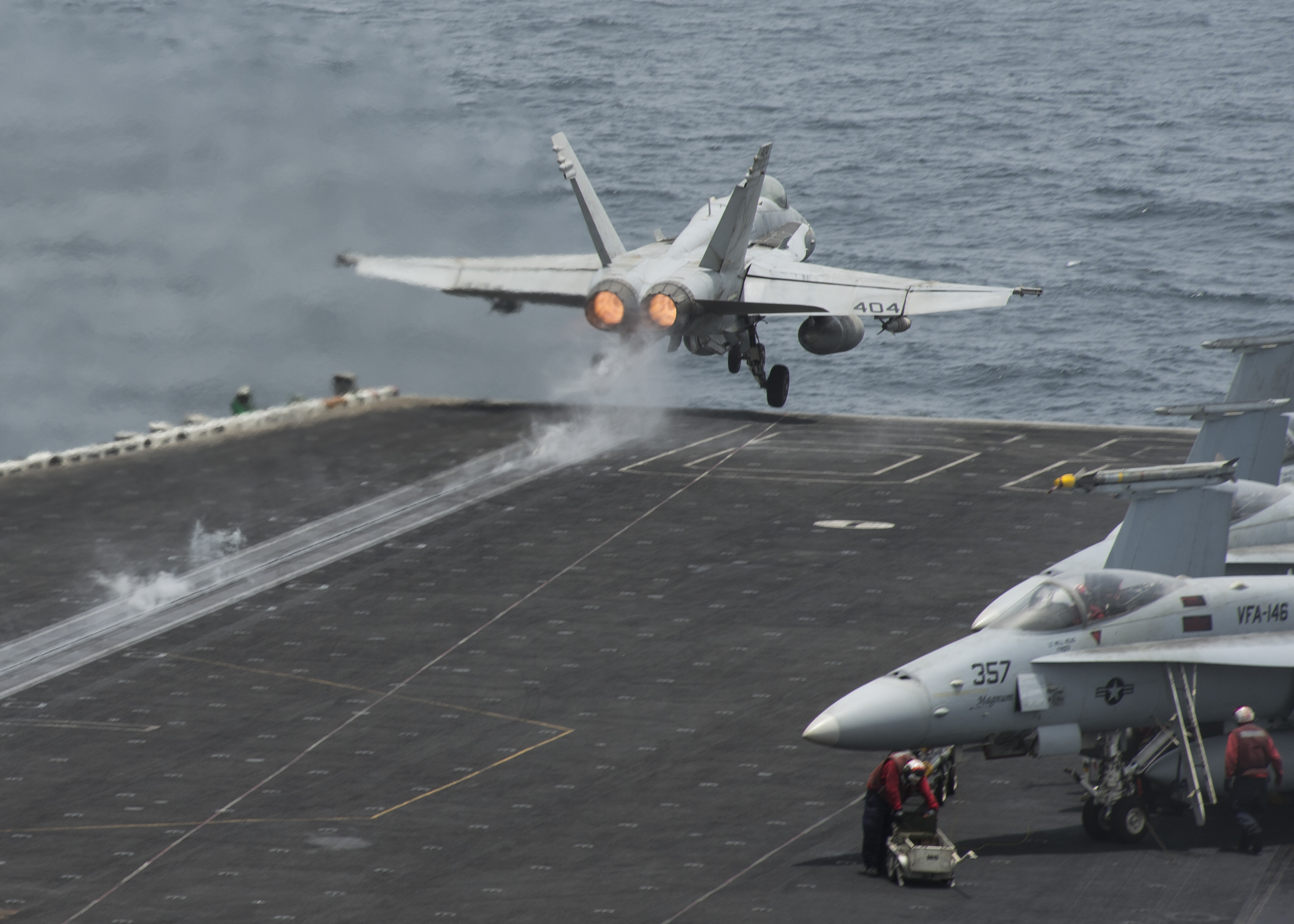 GULF OF OMAN (July 13, 2013) - An F/A-18C Hornet assigned to the “Death Rattlers” of Marine Fighter Attack Squadron (VMFA) 323 launches from the flight deck of the aircraft carrier USS Nimitz (CVN 68). Nimitz Strike Group is deployed to the U.S. 5th Fleet area of responsibility conducting maritime security operations, theater security cooperation efforts and support missions for Operation Enduring Freedom. (U.S. Navy photo by Mass Communication Specialist Seaman Derek A. Harkins/ Released)